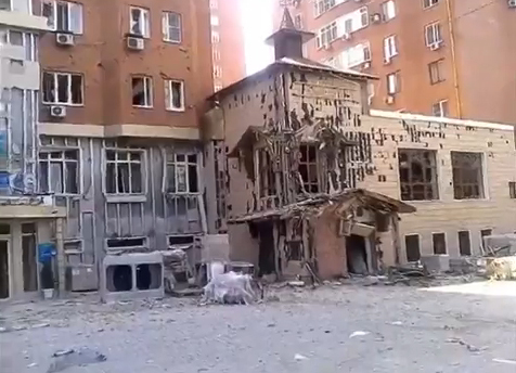 Damaged building in Donetsk, Donbass, on the intersection of Rosa Luxemburg Street and Panfilov street, August 7, 2014.